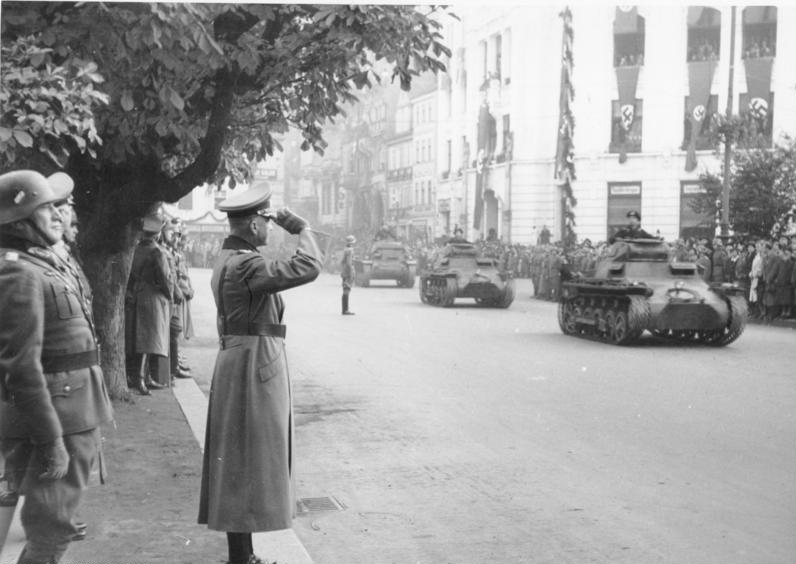 "March into the Sudetenland. [Panzer] parade before Ob.d.H. [Oberbefehlshaber des Heeres, Commander of the Army] Generaloberst von Brauchitsch. Tank parade. 13 October 1938 8:30 A.M. Carlsbad, Sudetenland" Information added by Wikimedia users.